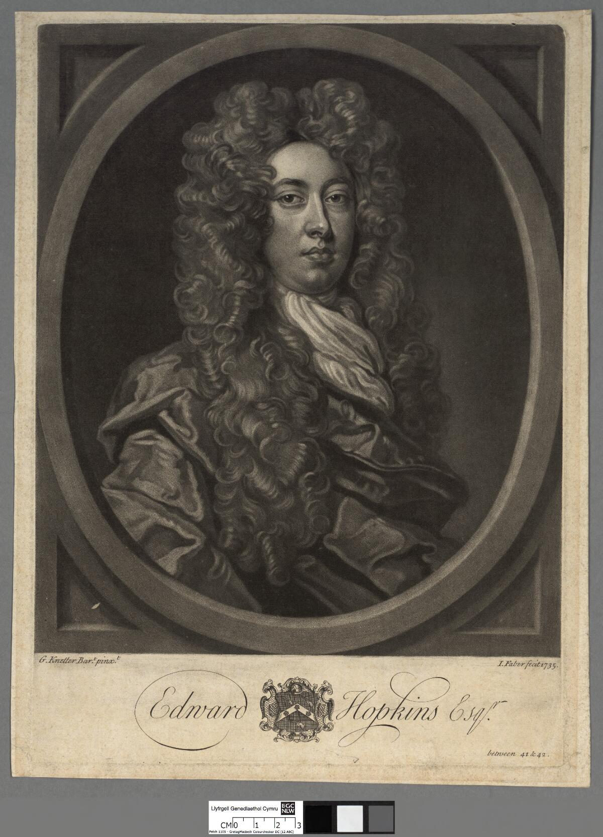 A portrait from the Welsh Portrait Collection at the National Library of Wales. Depicted person: Edward Hopkins – politician